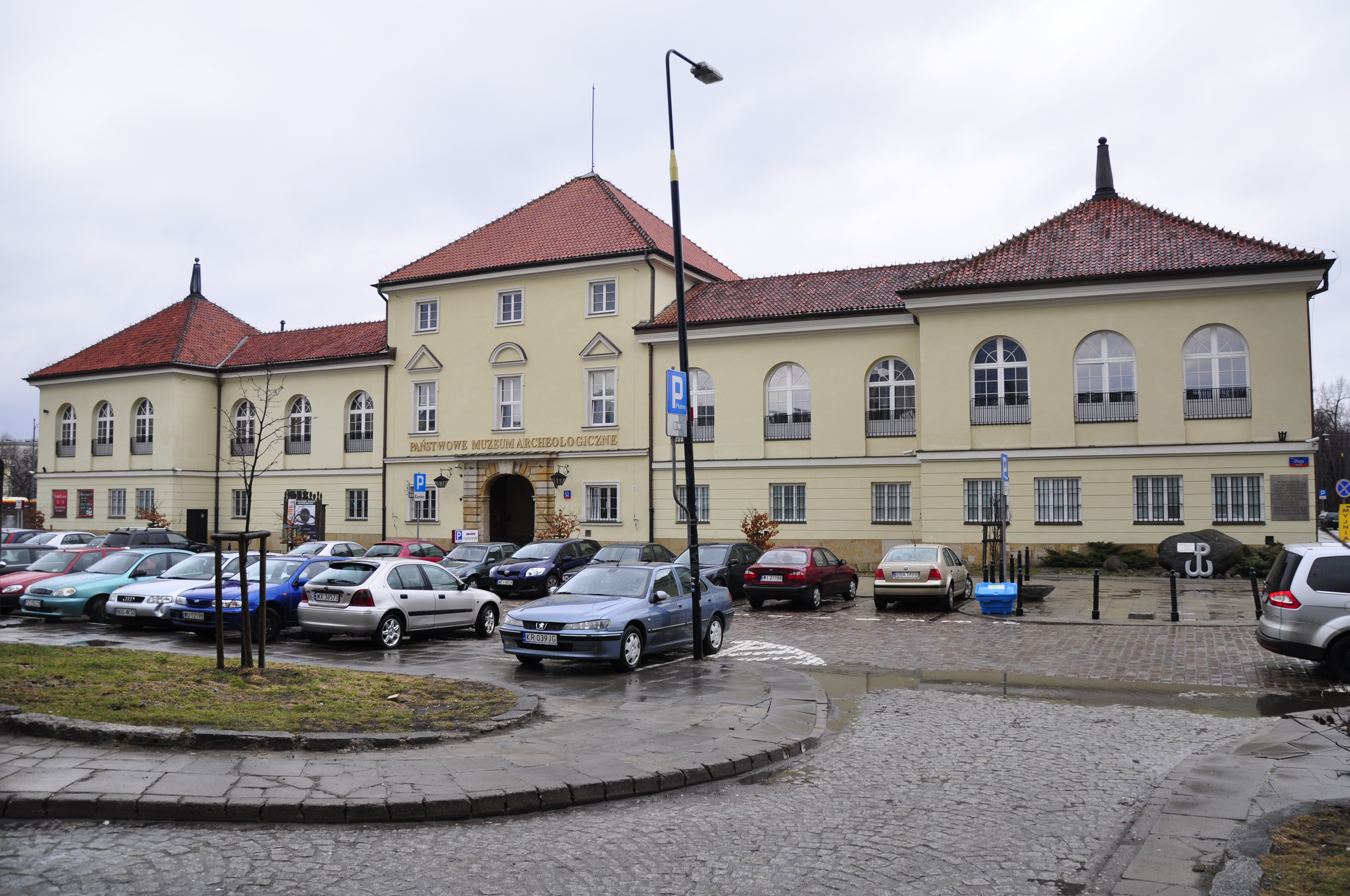 arceological museum in Arenal building in Warsaw